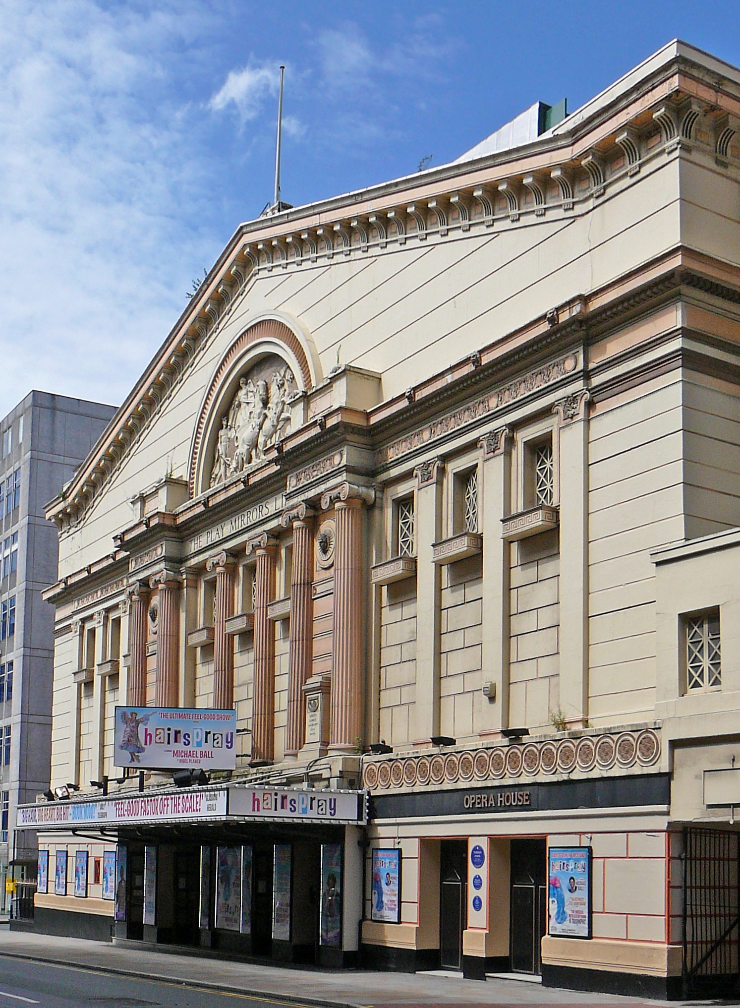 Manchester Opera House